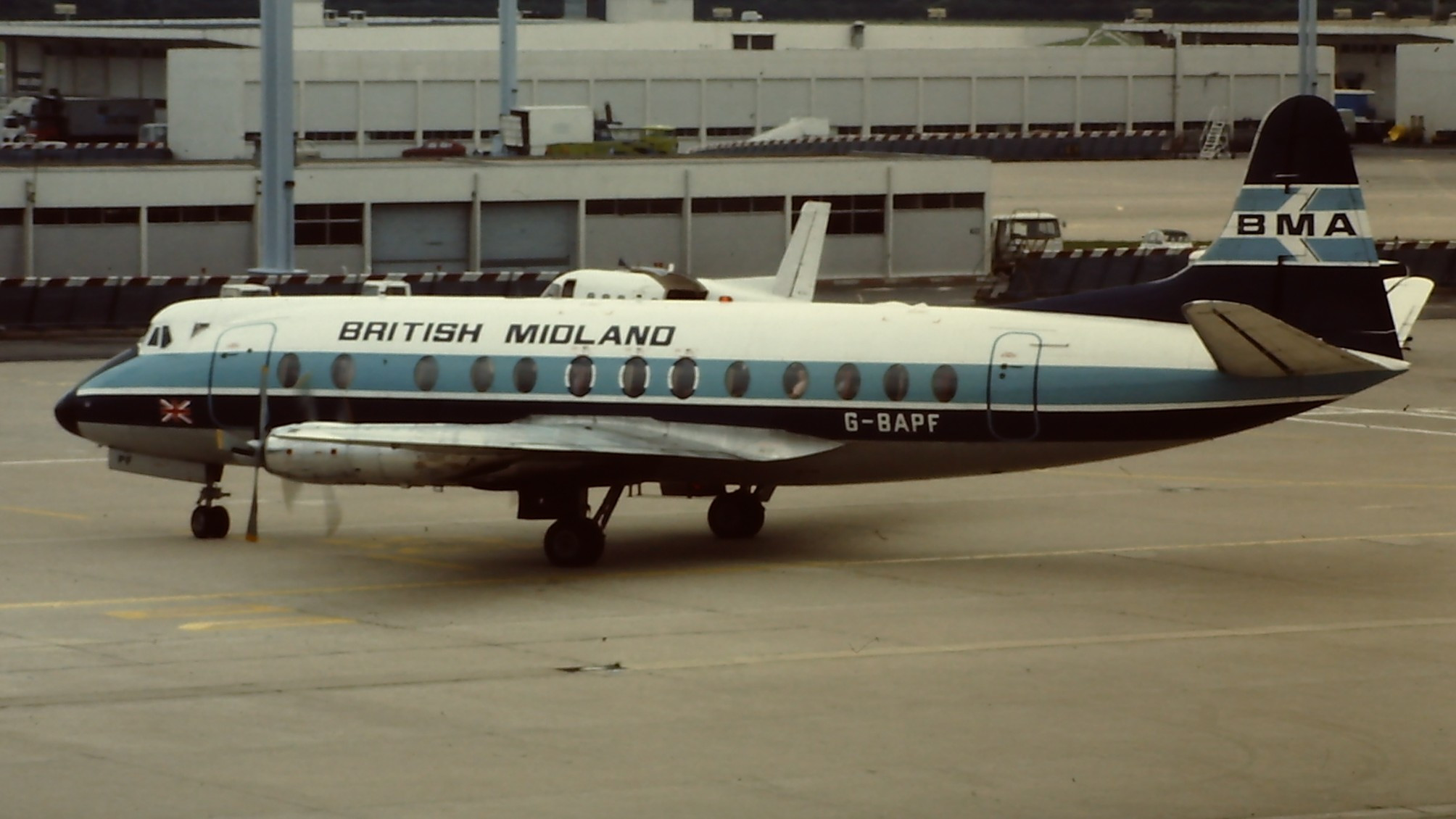 G-BAPF a Vickers Viscount 814 of British Midland at Paris Orly Airport